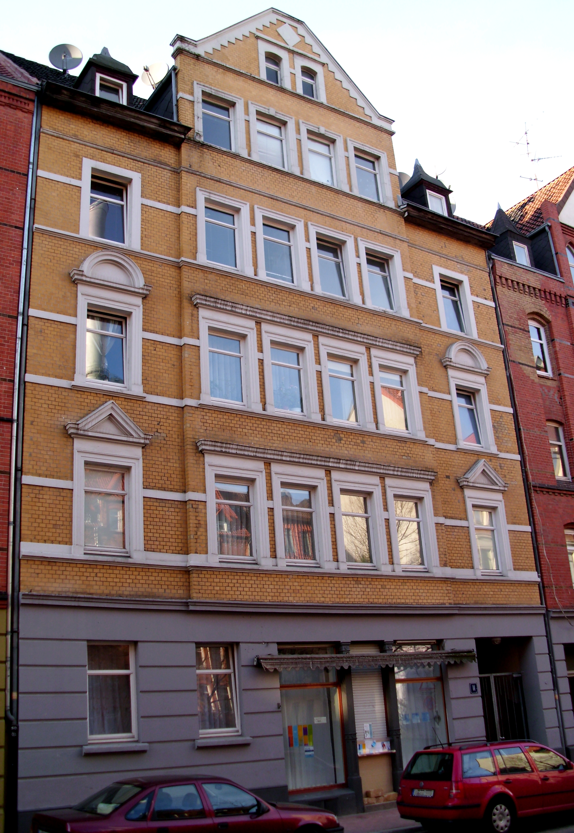 Building Hannover (Lower-Saxony, Germany), Kochstr. 14 built around 1910. Protected as heritage.